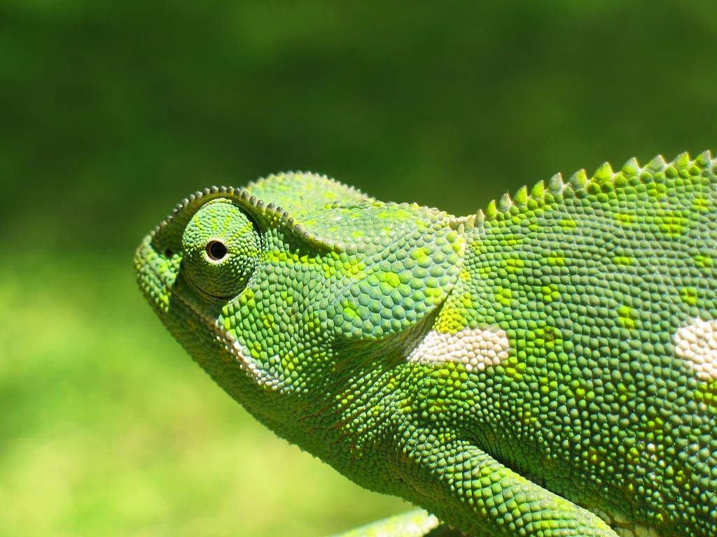 A picture of a chameleon taken by myself with a Canon PowerShot A620. Flap-Necked Chameleon (Chamaeleo dilepis), 35cm long approx. Limpopo Valley, Botswana. January 2006. There is a variation of this image located at Image:Chameleon_2006-01-contrast.jpg and Image:Chameleon 2006-01 cropped.jpg.